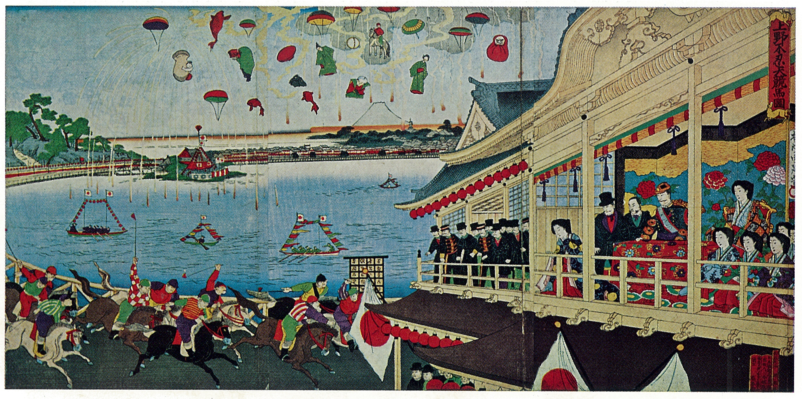 Toyohara Chikanobu (Yōshū Chikanobu)Ukiyo-e Uenosinobazuookeiba 1884